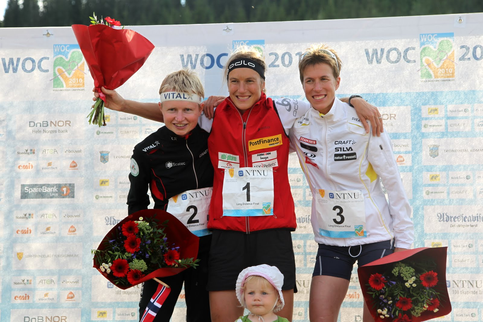 Marianne Andersen, Simone Niggli-Luder and Emma Claesson at World Orienteering Championships 2010 in Trondheim, Norway